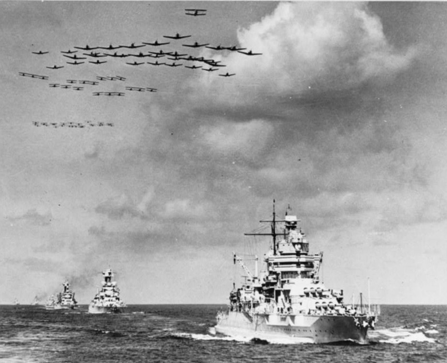 A U.S. Navy New Mexico-class battleship leading other battleships (a Colorado-class ship followed by a Tennessee-class ship) of the Pacific Fleet between 9 and 13 September 1940 during a simulated fleet engagement. Above flies a carrier air group, led by the Air Group Commander in a Curtiss SBC Helldiver. The aircraft are: A torpedo squadron of eighteen Douglas TBD-1 Devastators; A bombing squadron of eighteen Northrop BT-1s; A scouting squadron eighteen Curtiss SBCs; A fighting squadron of eighteen Grumman F2F-1s or F3F-3s from either the USS Yorktown (CV-5) or F3F-2s from the USS Enterprise (CV-6), plus possibly nine additional aircraft.